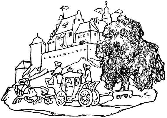 Illustration by Otto Ubbelohde to the fairy tale The True Bride